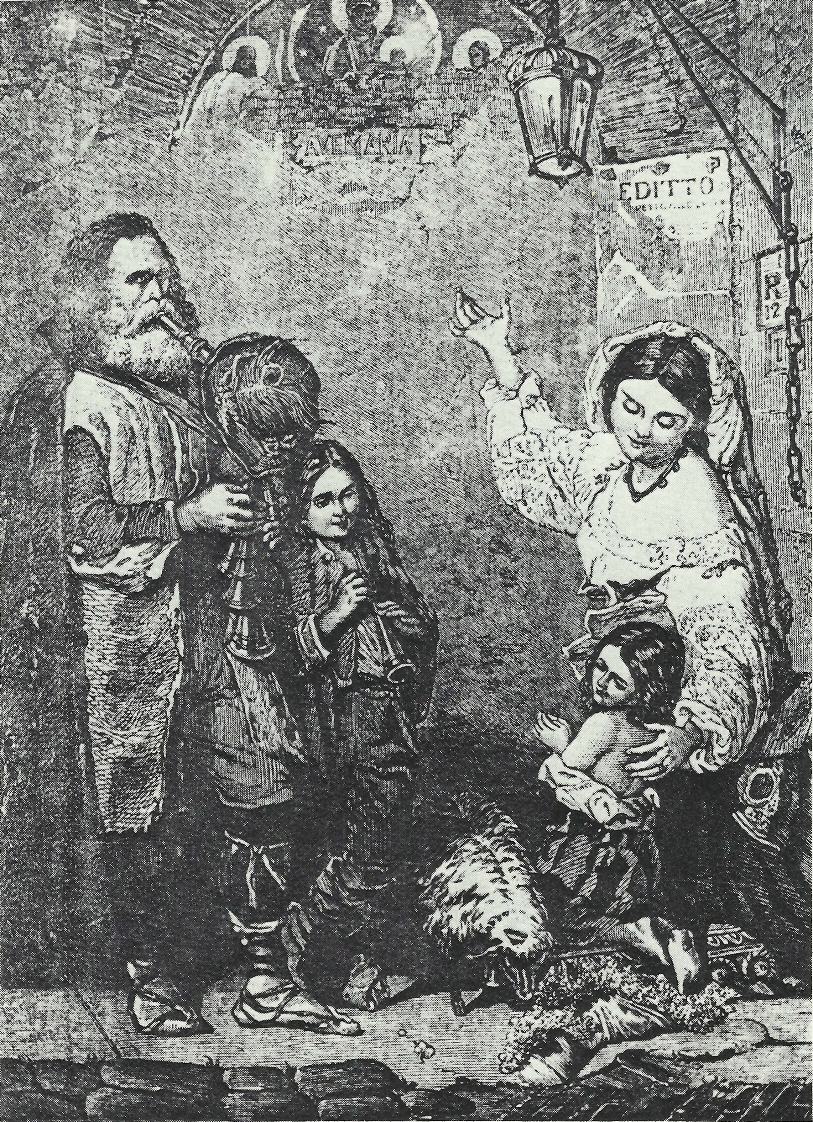 Sample in black and white of a watercolour of Elizabeth Murray.